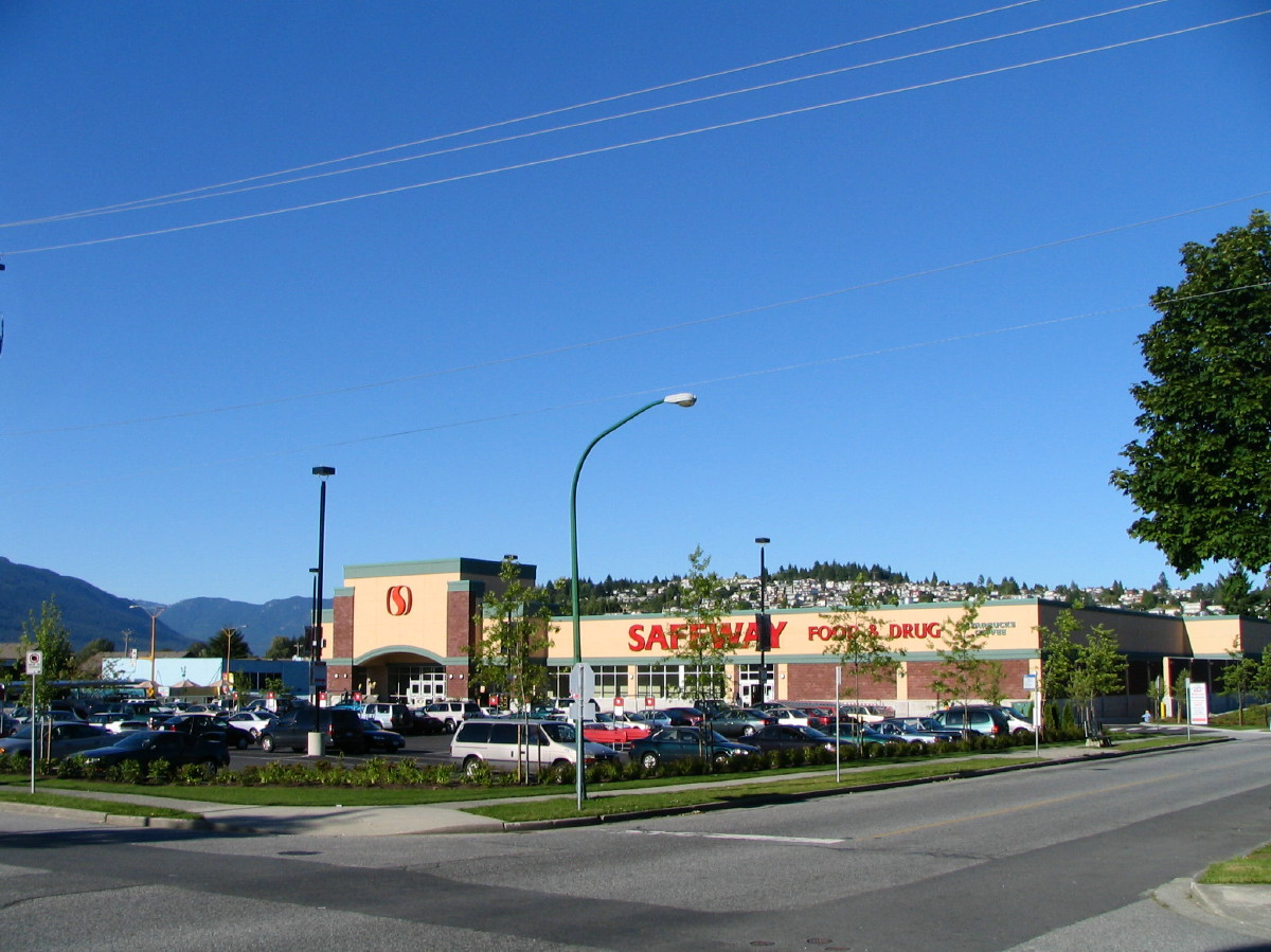 This image was created by me, Flying Penguin of Pacific Spirit Photography ( of Burnaby, BC, Canada